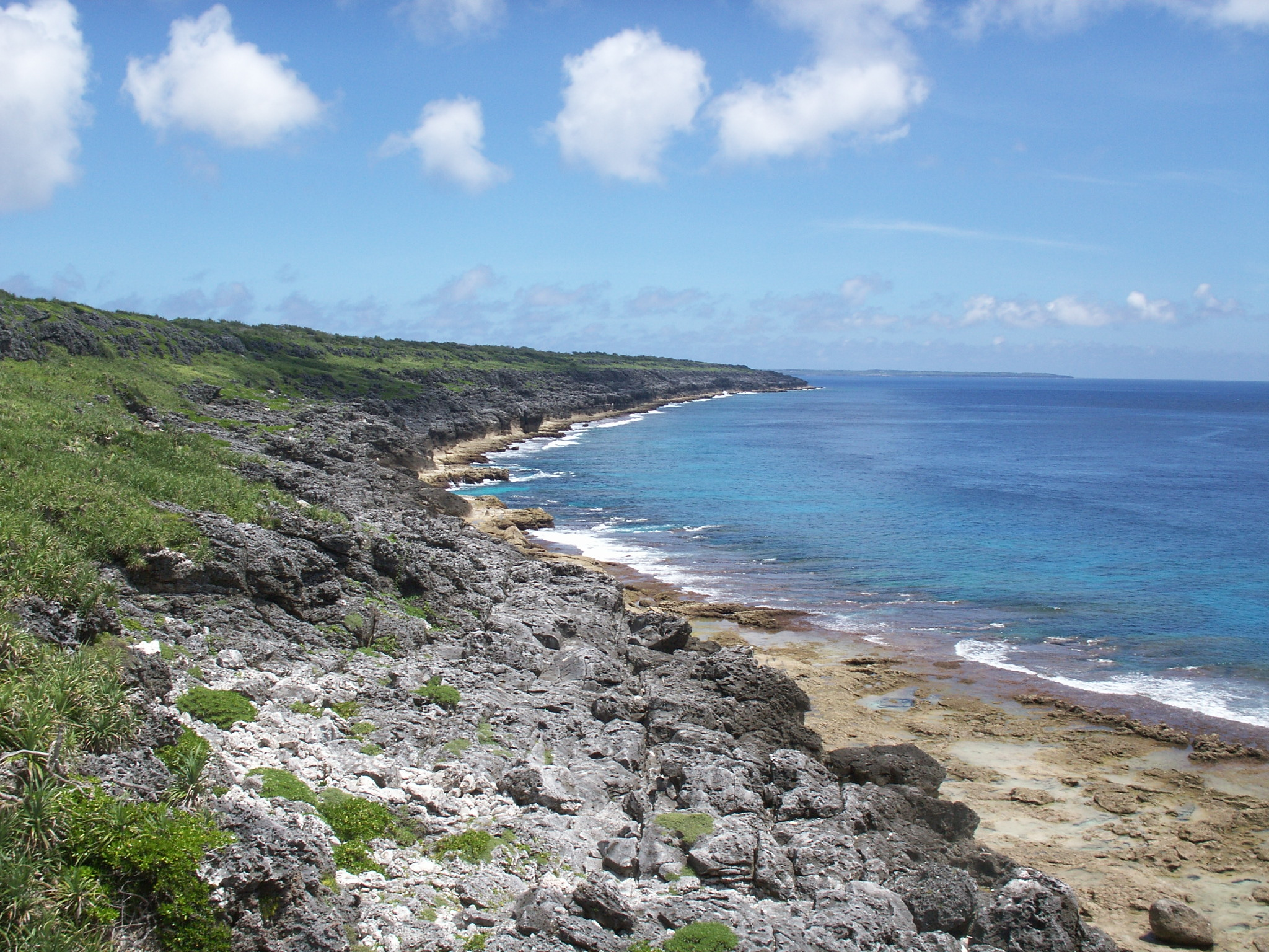 The coast of Minamidaito in Okinawa Prefecture, Japan